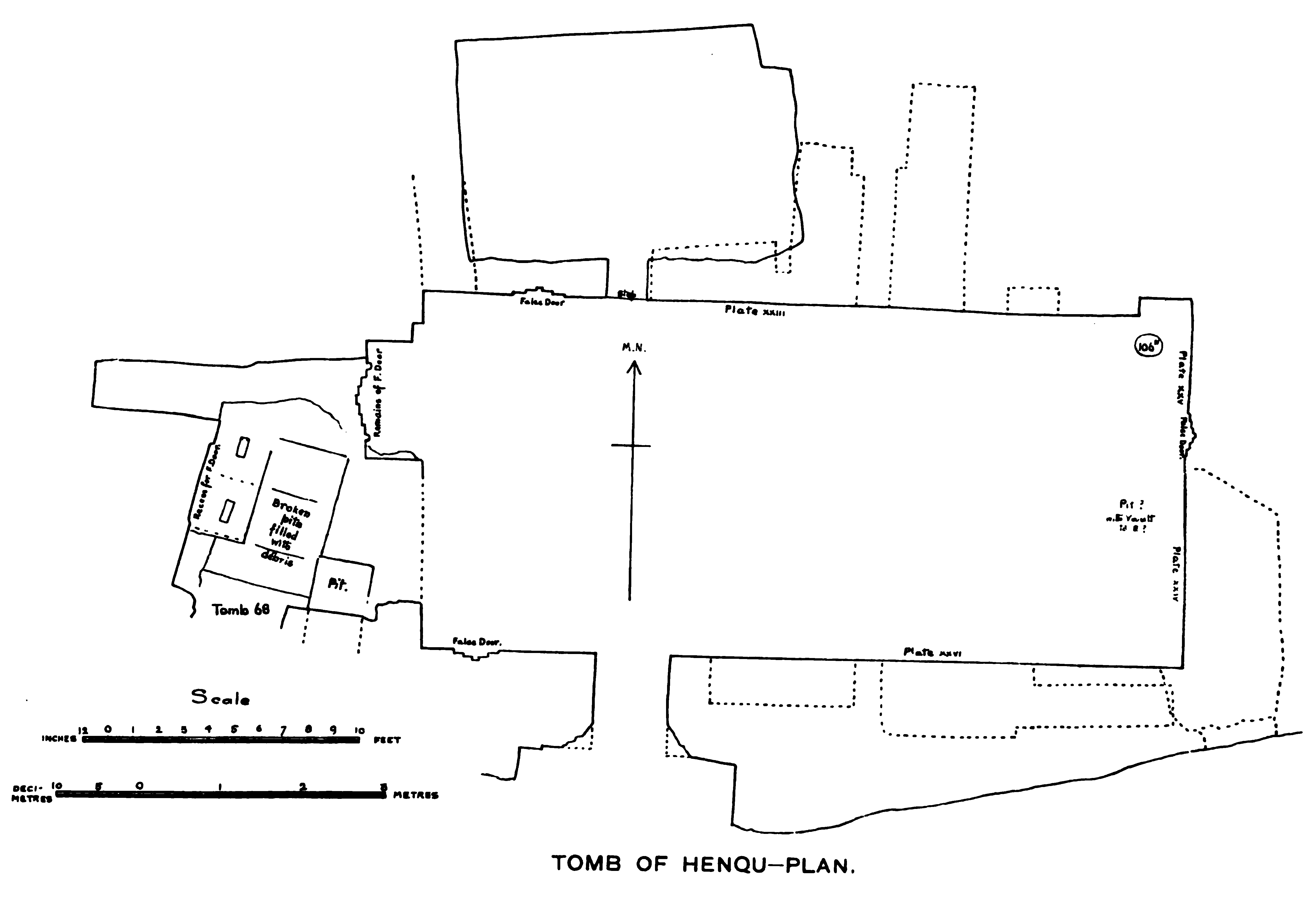 Deir el-Gebrawi rock tomb N67 (Henqu II)